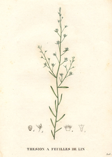 Thesium linophyllum